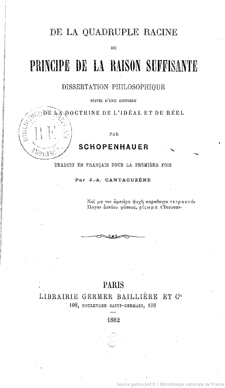 Front cover of Arthur Schopenhauer's On the Fourfold Root of the Principle of Sufficient Reason in the Germer-Ballière's 1882 edition.